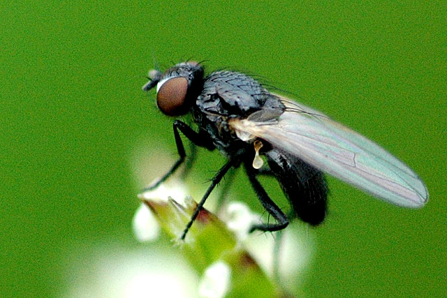 Fannia lucidula from Commanster, Belgian High Ardennes .